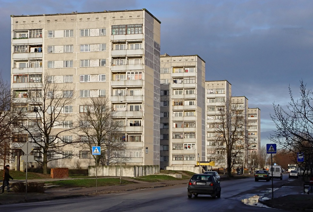 A block of soviet blockhouses in the Latvian town of Liepaja.